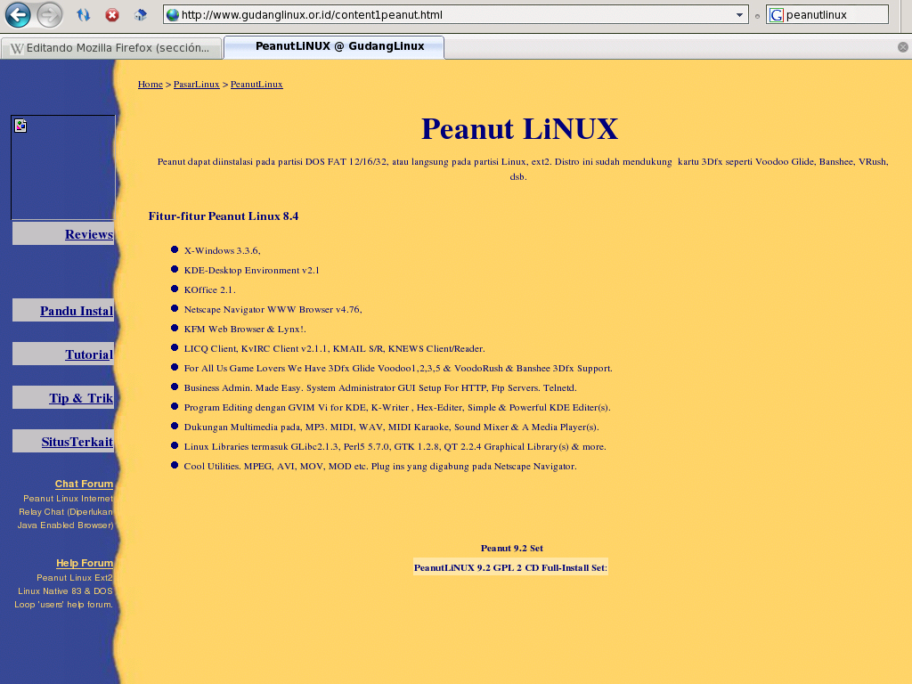 Snapshot of Firefox at Peanut Linux.